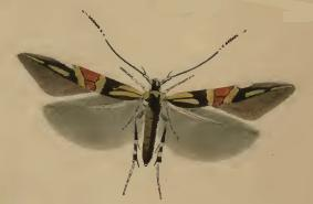 Stainton’s Natural History of the Tineina (1855–1873): Cosmopterix orichalcea